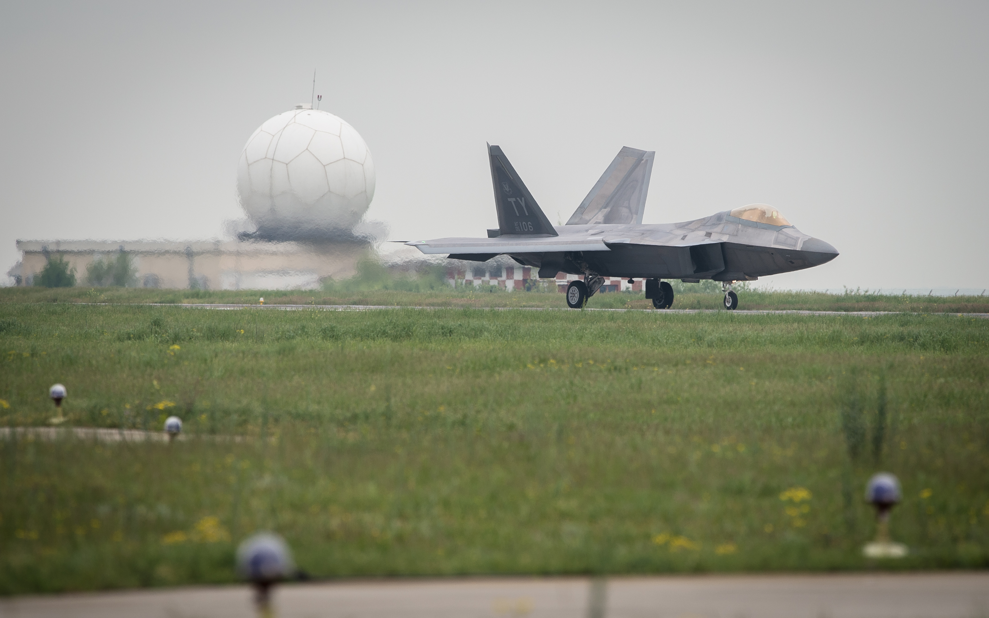 A U.S. Air Force F-22A Raptor taxis on the flightline at Mihail Kogalniceanu Air Base, Romania, April 25, 2016. The aircraft will conduct air training with other Europe-based aircraft and will also forward deploy from England to maximize training opportunities while demonstrating the U.S. commitment to NATO allies and the security of Europe. The Raptors are deployed from the 95th Fighter Squadron, Tyndall Air Force Base, Florida.